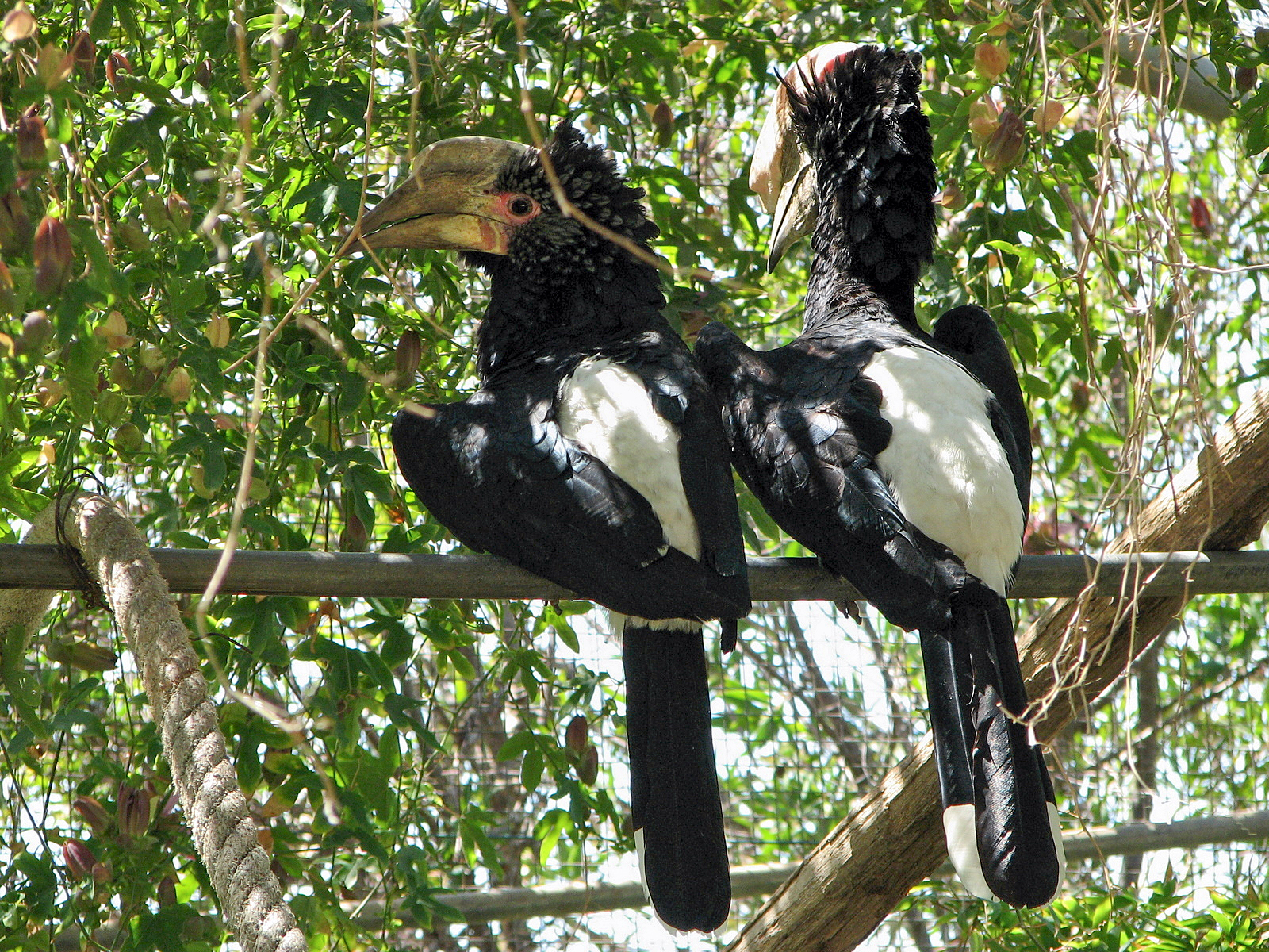 .Silvery-cheeked Hornbill; male (facing away) and female (checking out the photographer). Photographed at Lagos Zoo, Portugal.